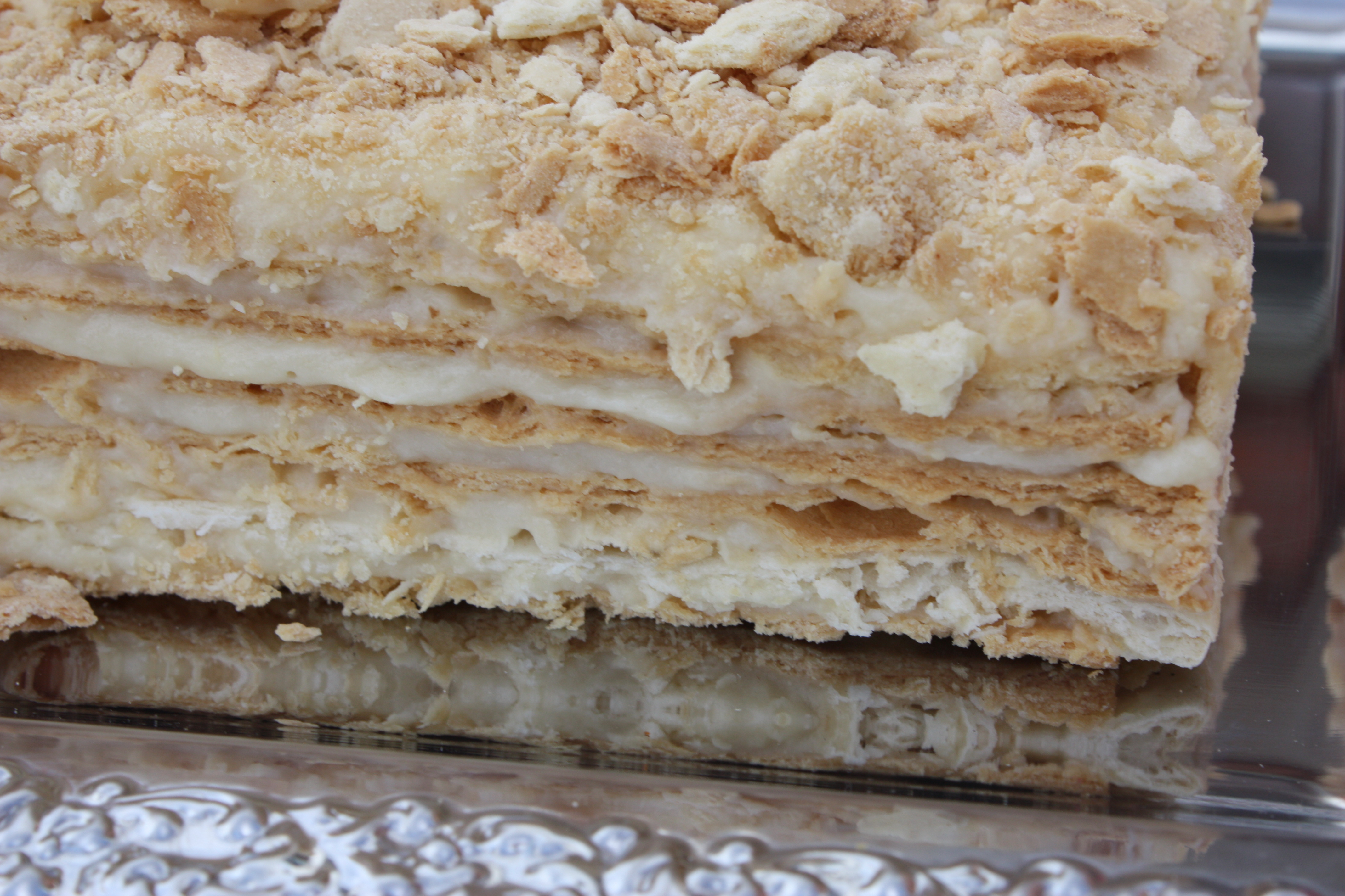 Mille-feuille